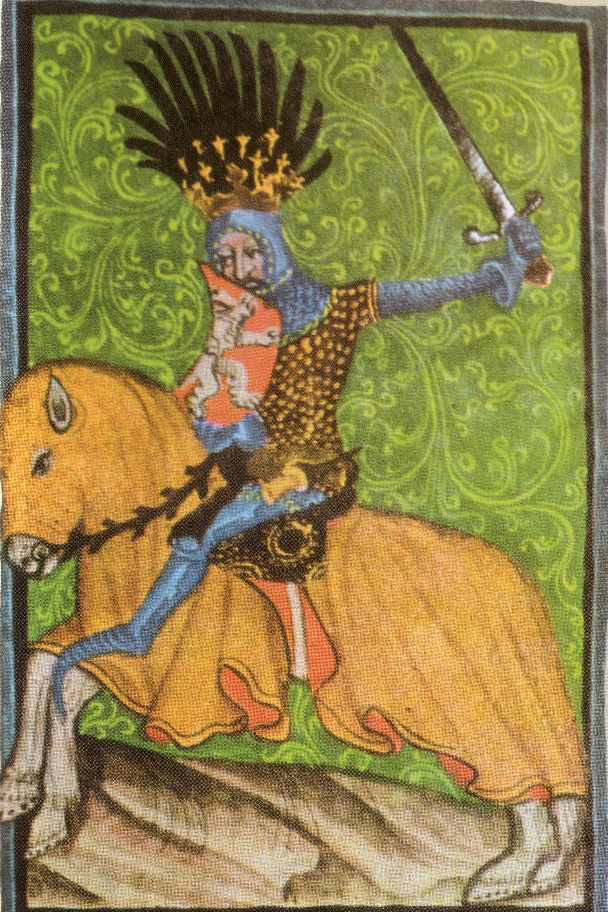 John I, Count of Luxemburg Česky: Jan Lucemburský